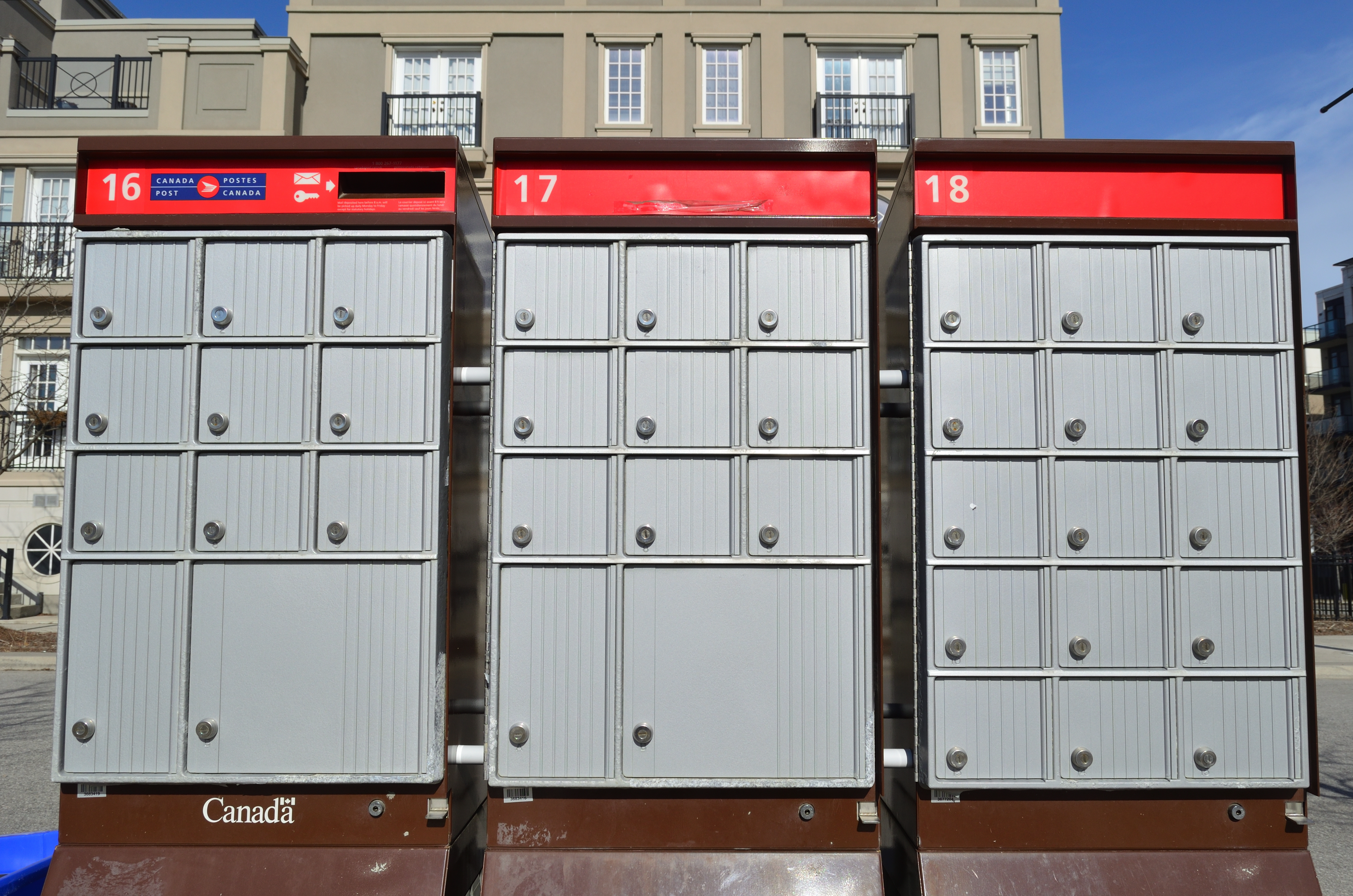 Canada Post Community Mail Boxes